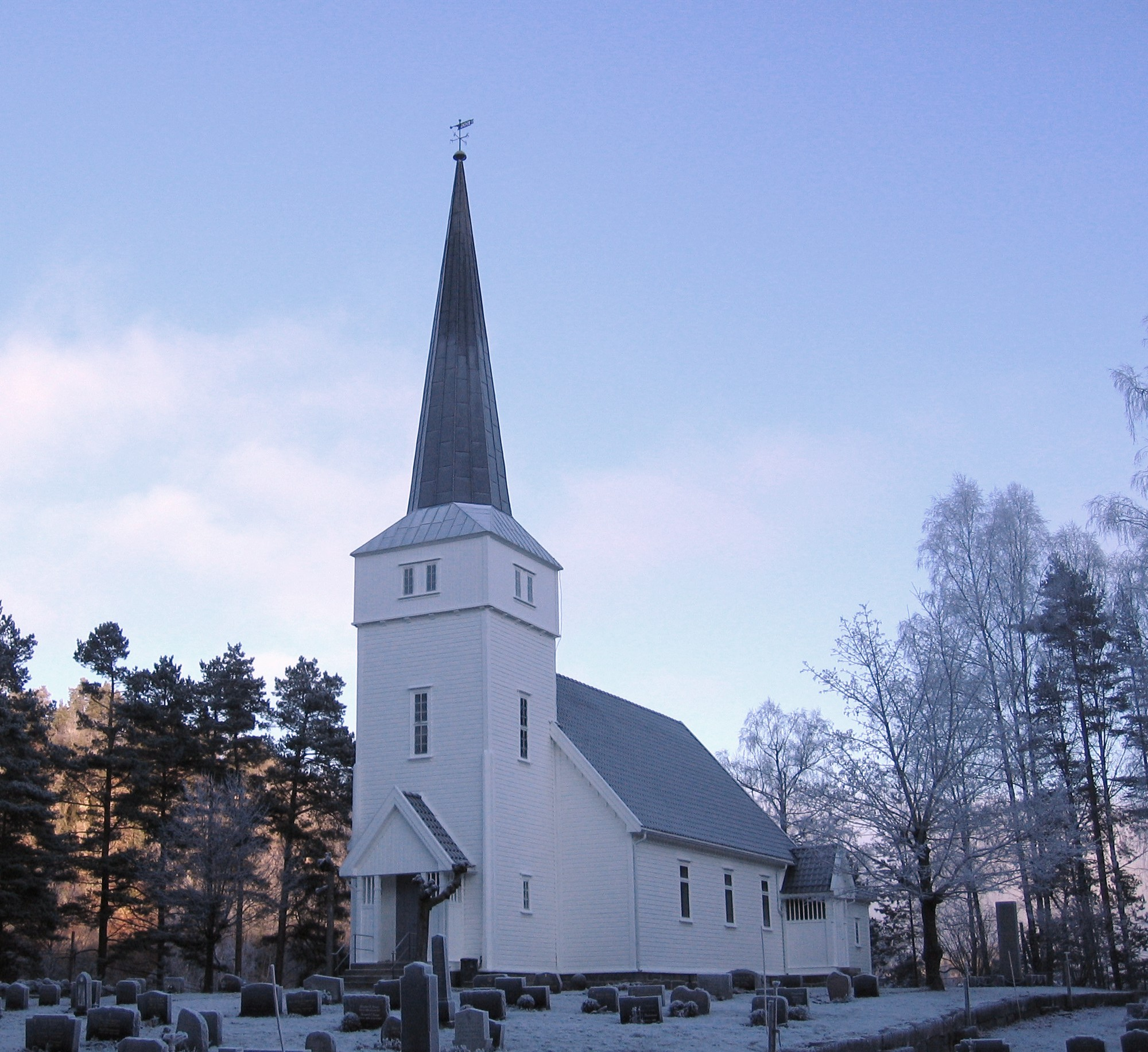 Laget church, Risør kommune.